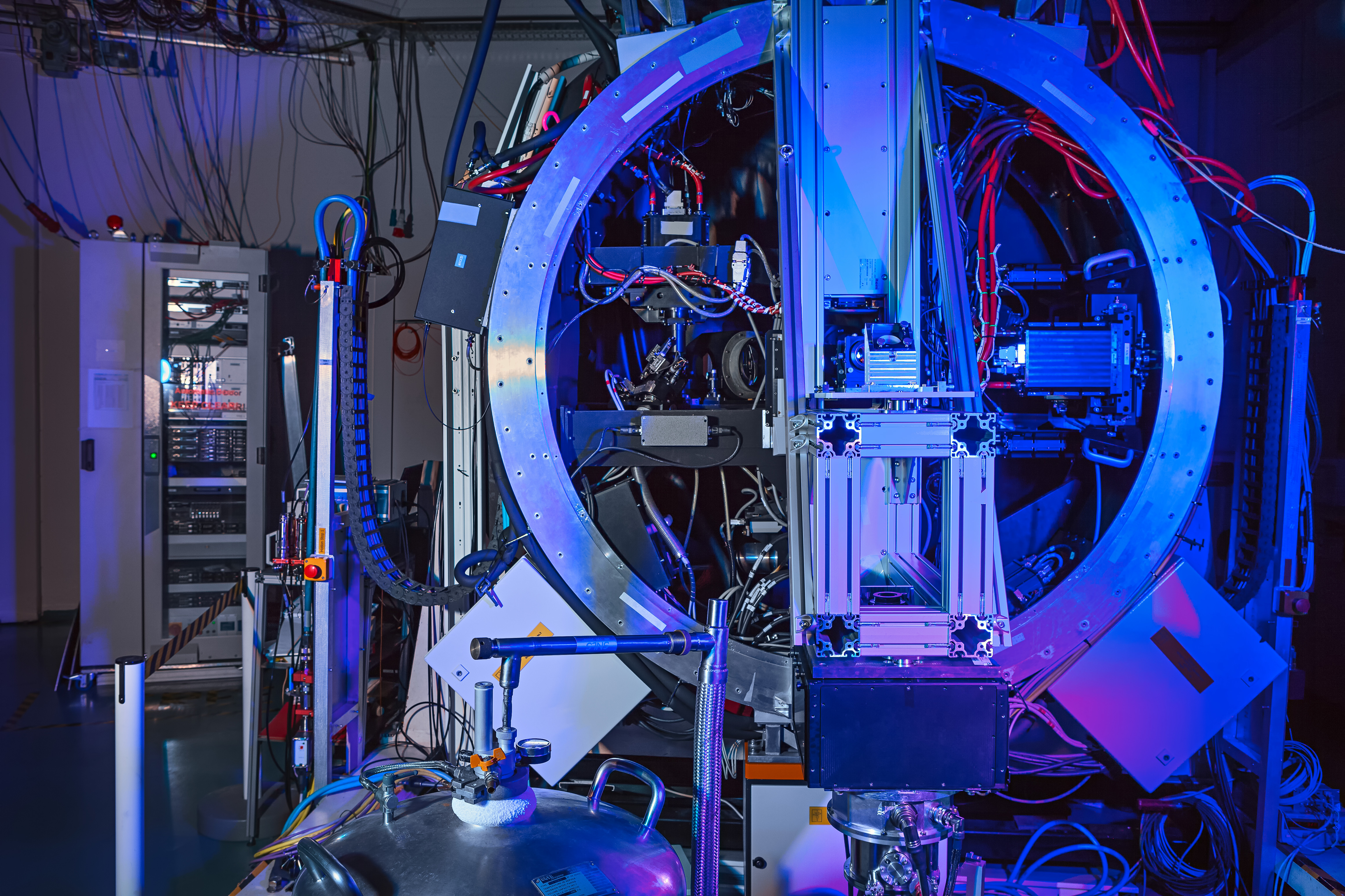 The GALACSI instrument has been thoroughly tested in ESO's headquarters, and will now be shipped to Chile.